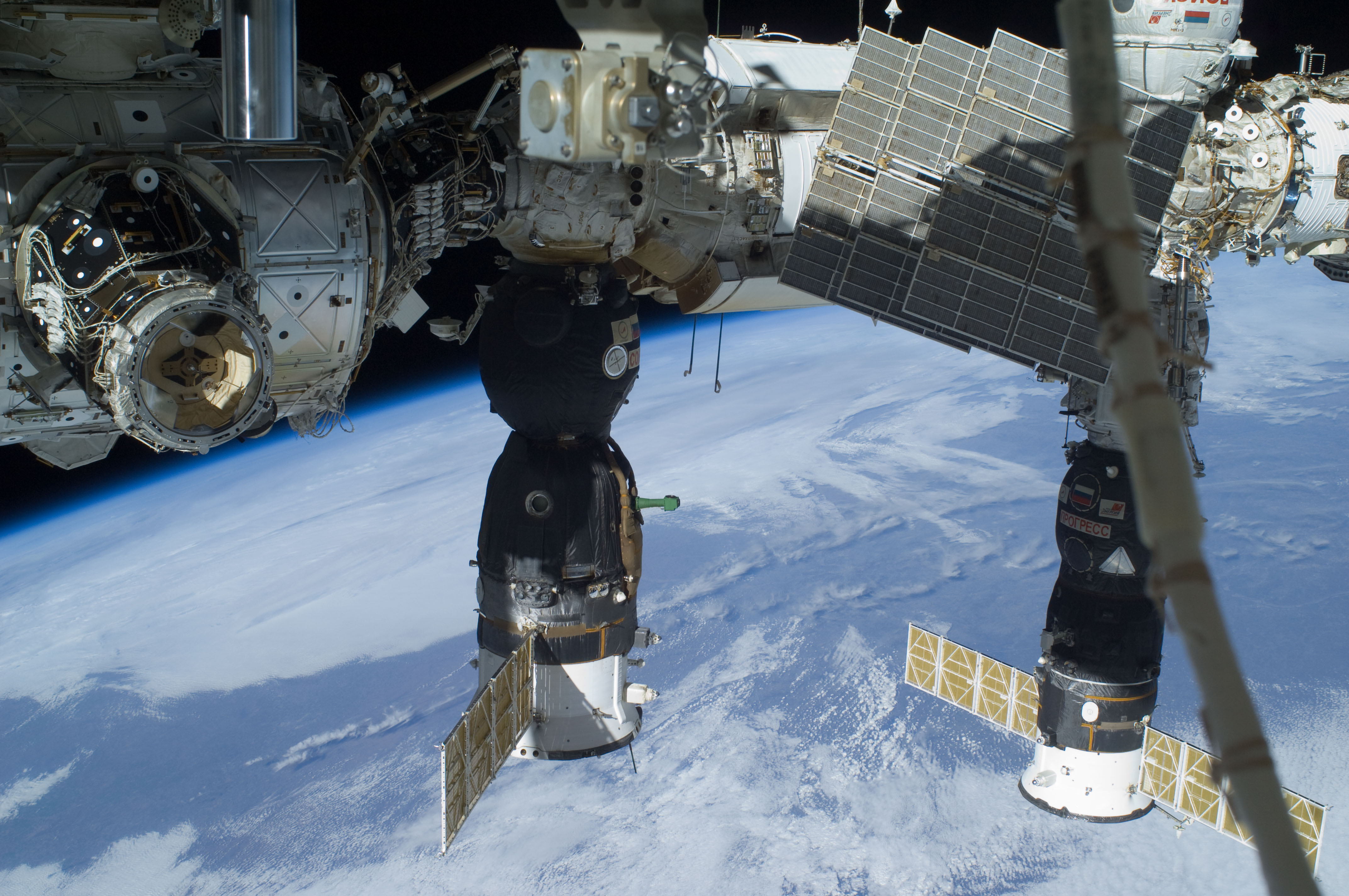 A portion of the Russian segment of the International Space Station is featured in this image photographed by a space-walking astronaut during the third and final spacewalk for the STS-129 mission. A docked Soyuz spacecraft is at center and a Progress resupply vehicle is docked to the Pirs Docking Compartment. Earth's horizon and the blackness of space provide the backdrop for the scene.